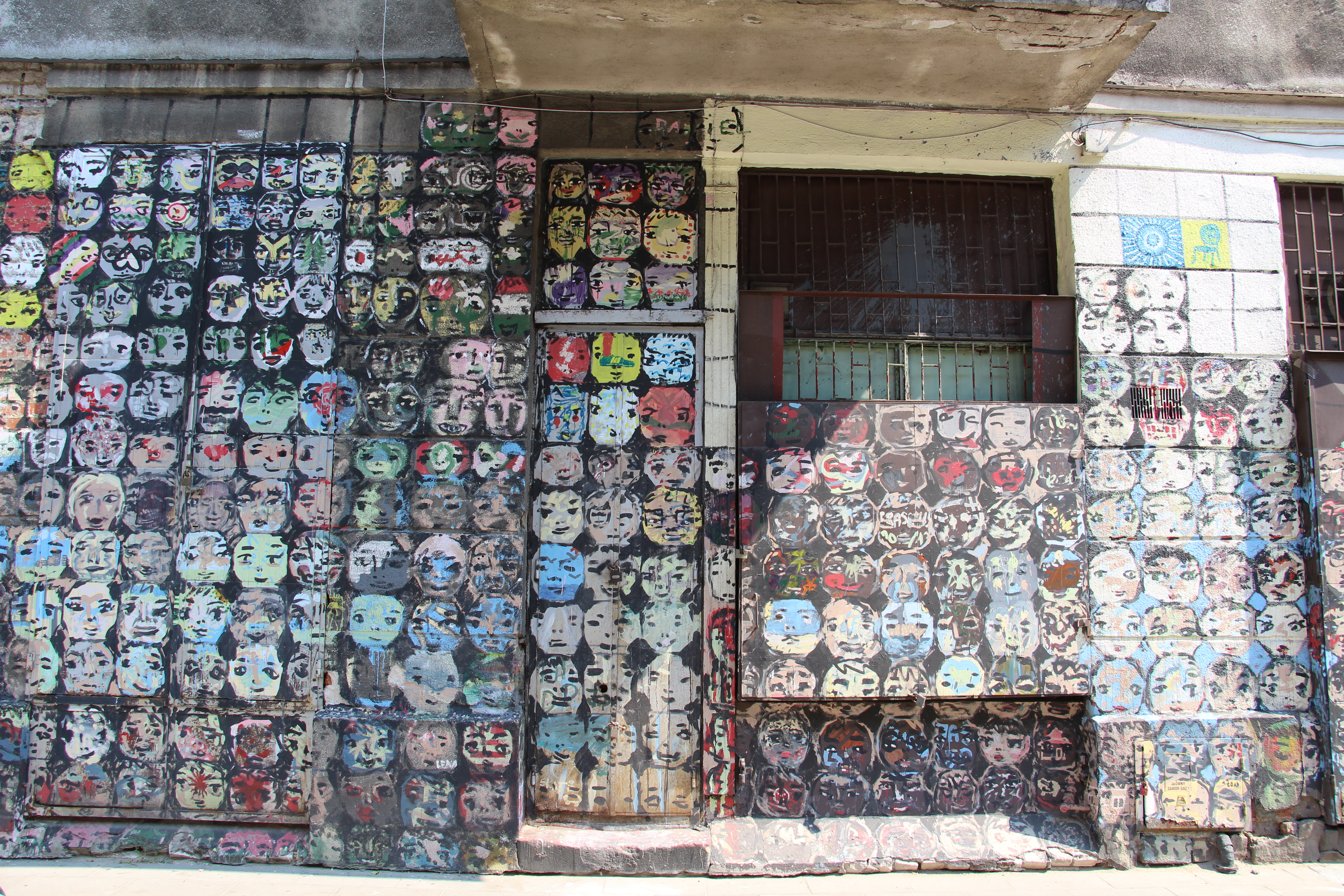 Brzeska Street art on Brzeska street. This street was supposed to house many artists to gentrify the neighborhood and a few artists' studios and caffe clubs opened but didn't last long, the condition didn't look so good and the district might not be ready for that yet